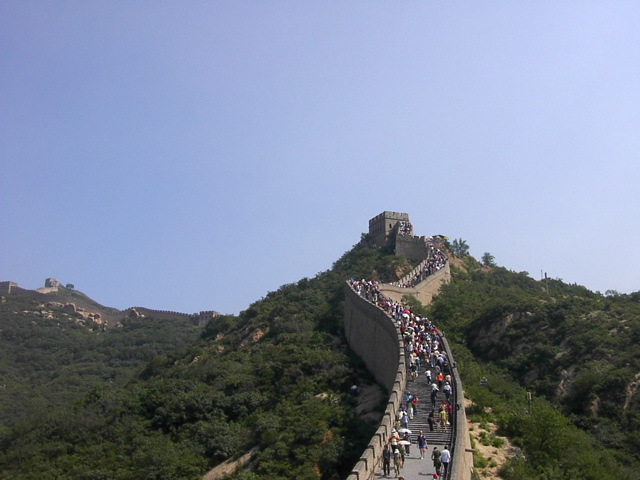 The Great Wall at Badaling, Beijing, China. DF08 2002 image.